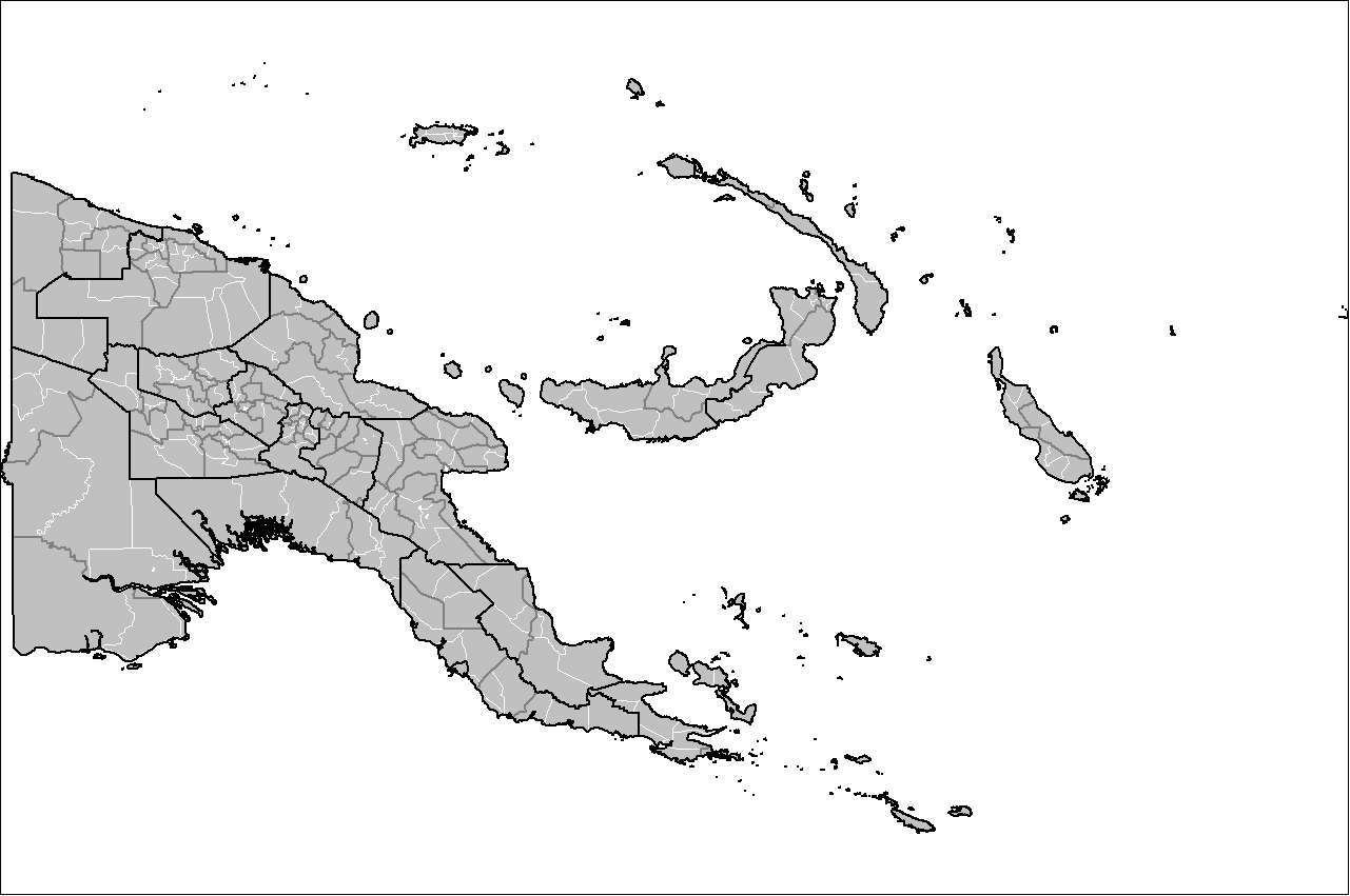 Map of the Local Level Governments (LLGs) of Papua New Guinea.